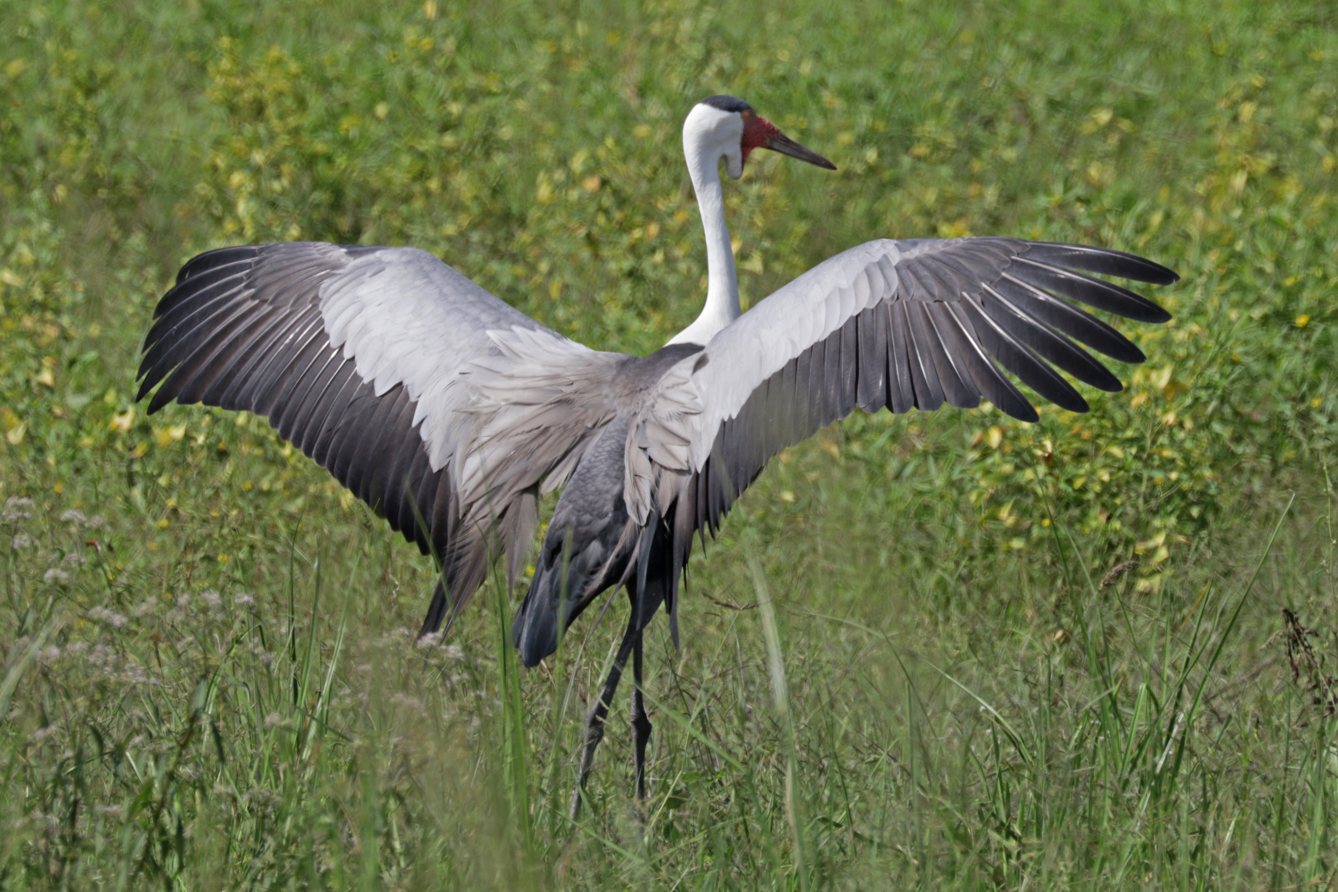 Wattled crane (Grus carunculata) displaying wings, Nkasa Rupara National Park, Namibia